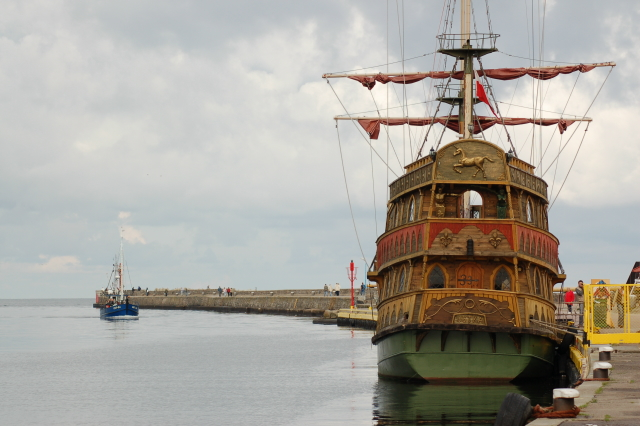 Unicus in Ustka